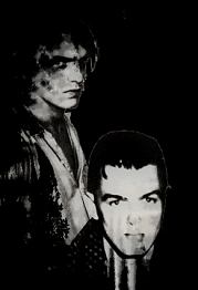 Promotion image 1986.